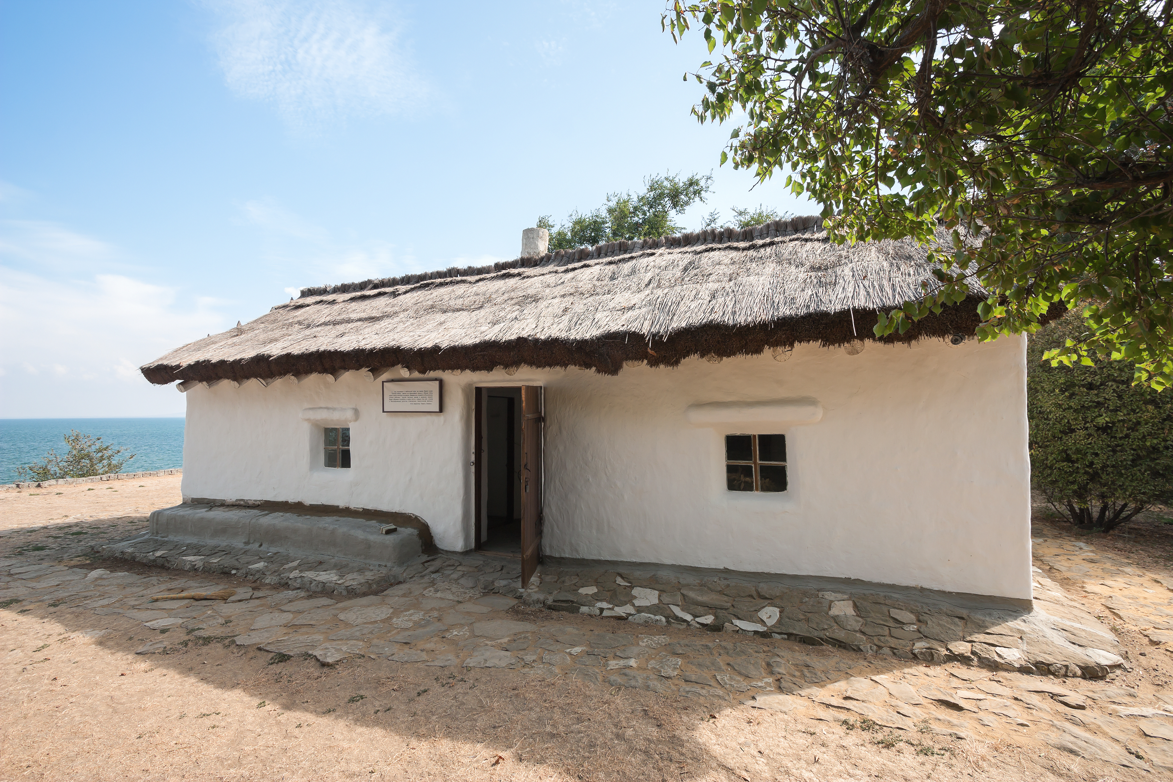 House - Museum of MY Lermontov Street Lermontov, 5 (. Square Lermontov), Taman, Temryuk district, Krasnodar region.